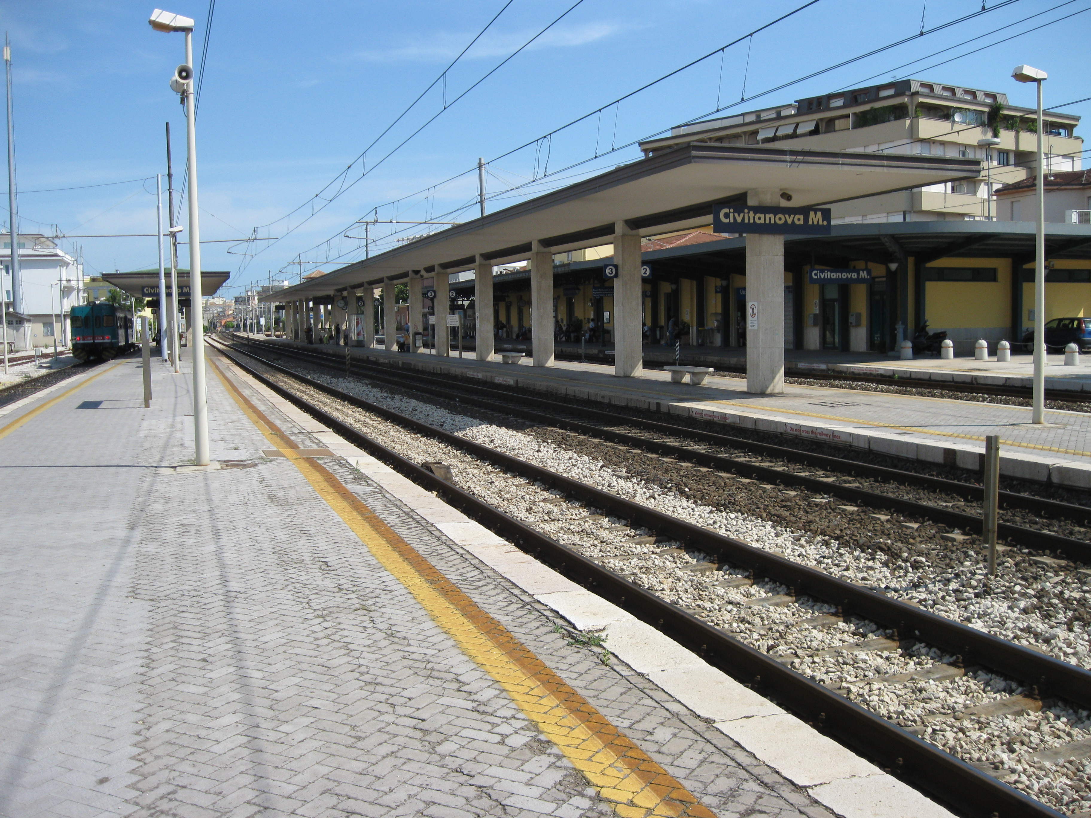 Train station in Civitanova Marche, Italy